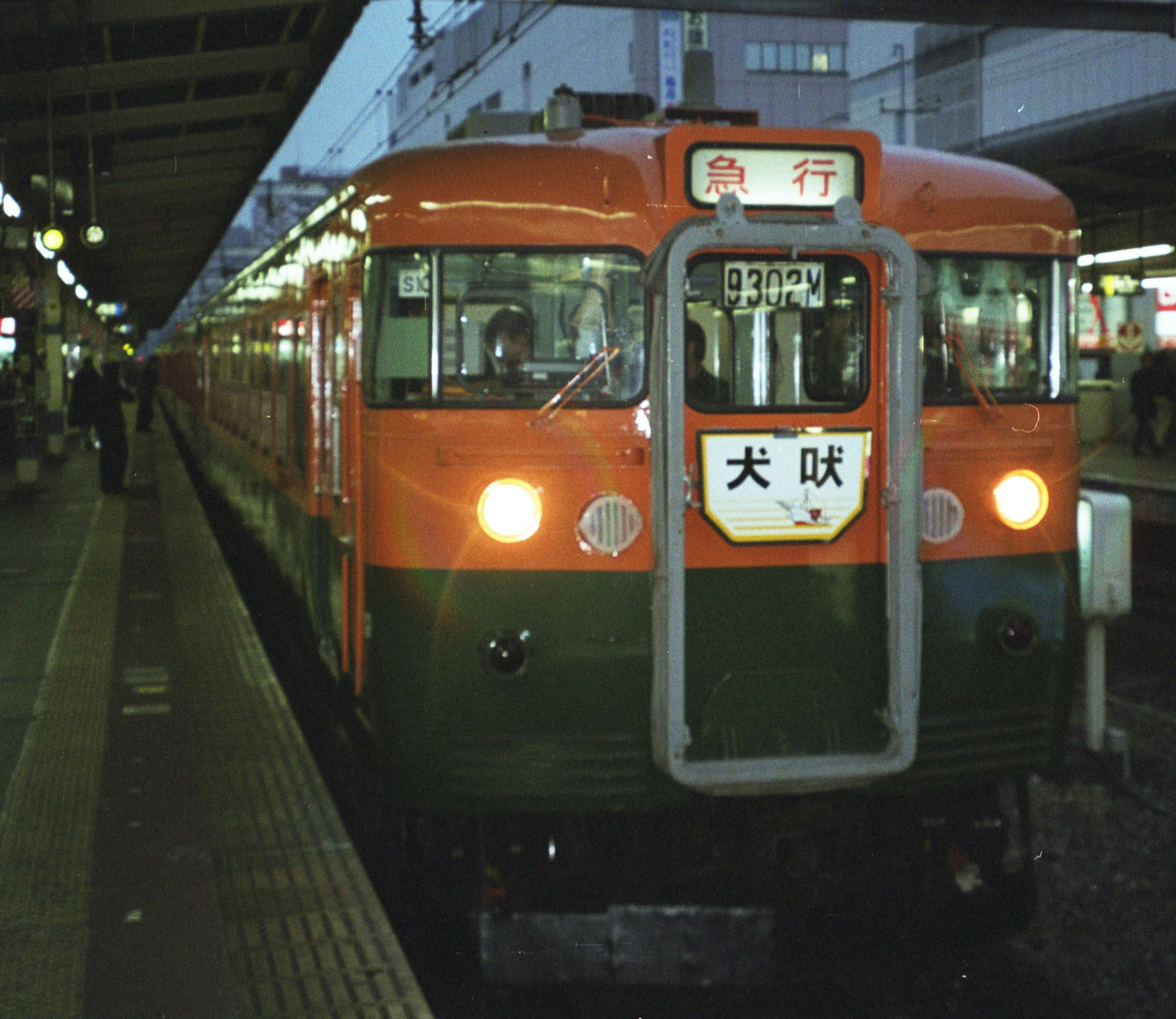 A JR East 165 series EMU at Kinshicho Station on a special "Inubo" revival working